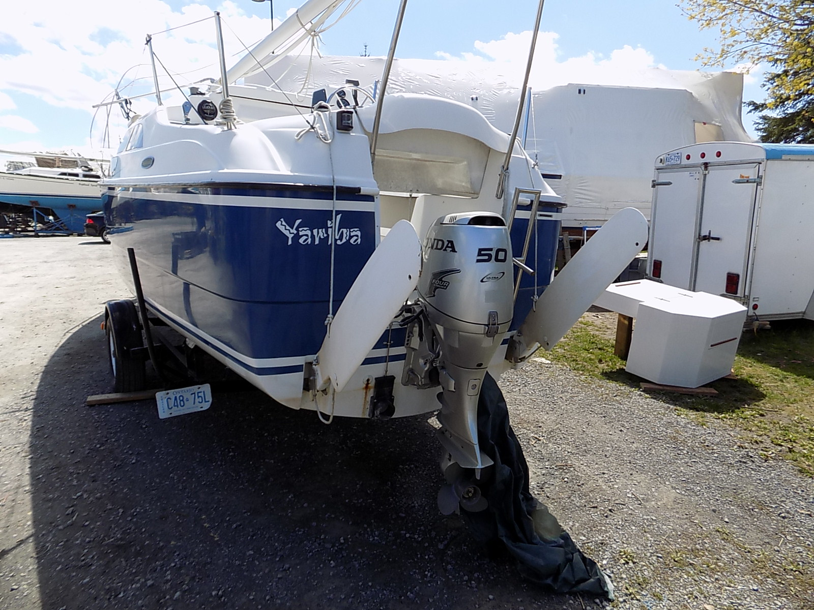 A MacGregor 26M sailboat, named Yariba on its trailer, showing the dual rudder arrangement.